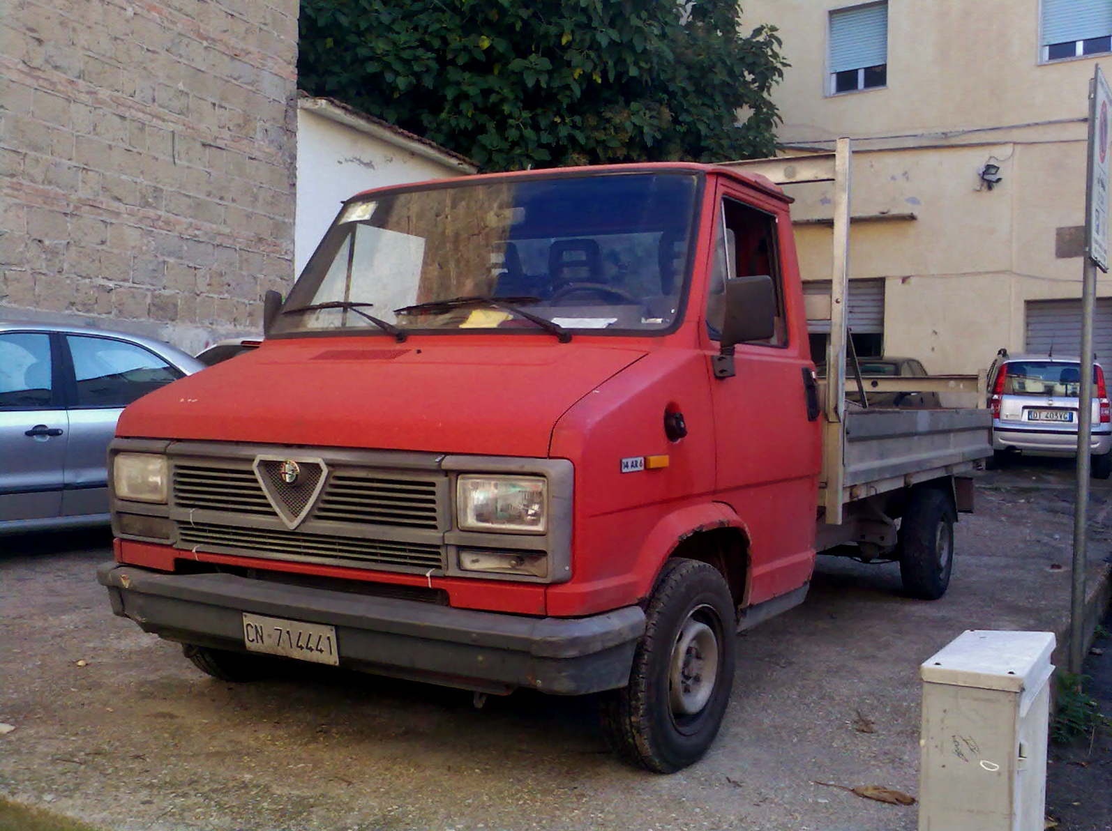 A red Alfa Romeo AR6 pick up truck